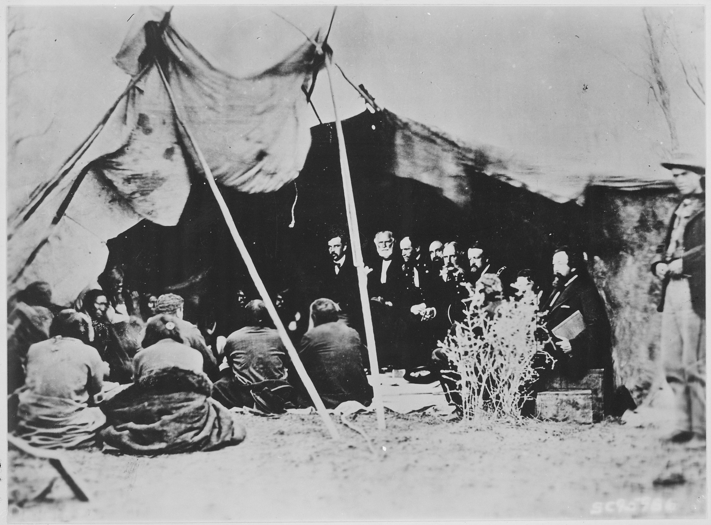 Scope and content: This item shows the signing of a peace treaty by William T. Sherman and the Sioux at Fort Laramie, Wyoming.